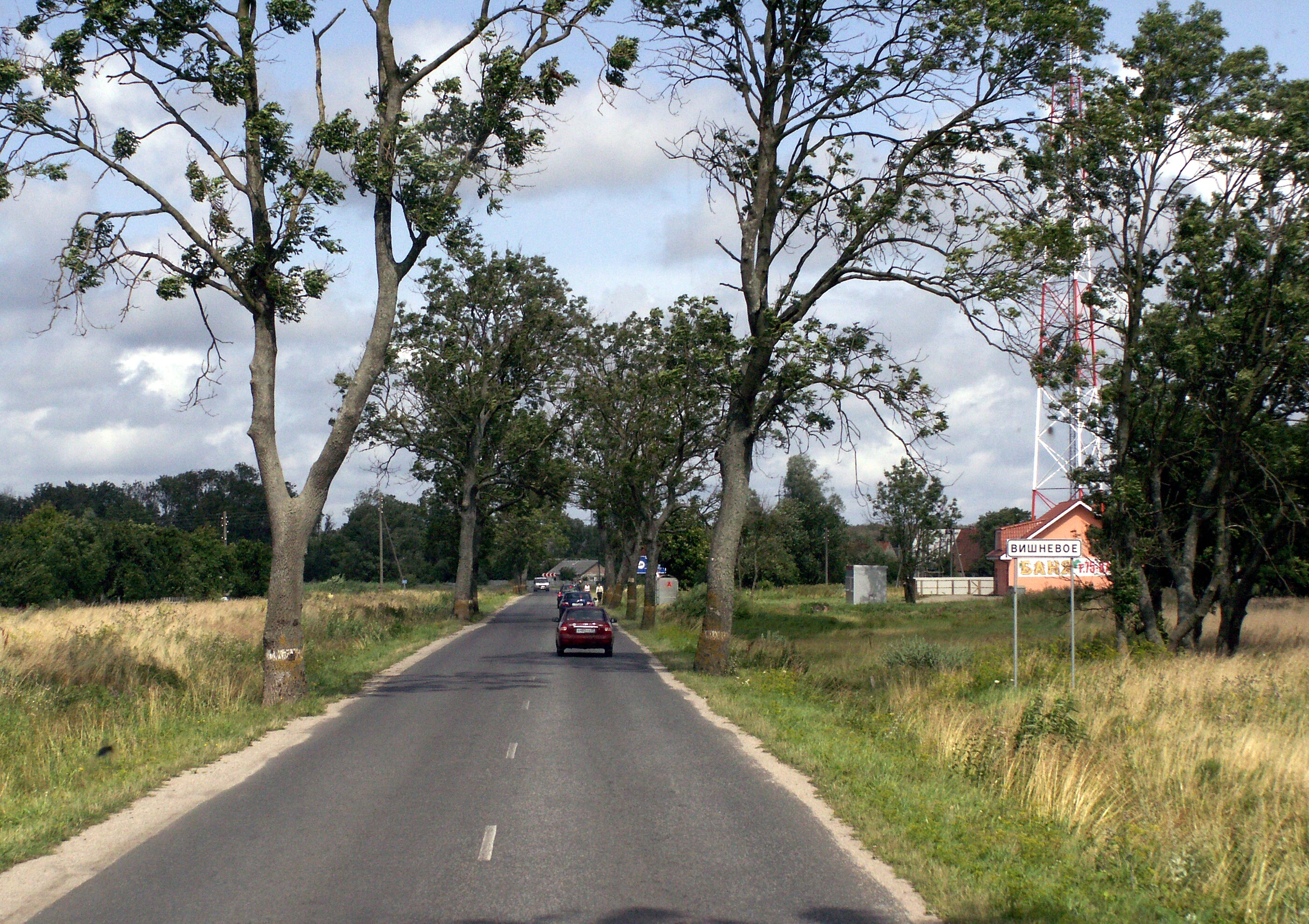 Vishniovoye in Kaliningrad oblast